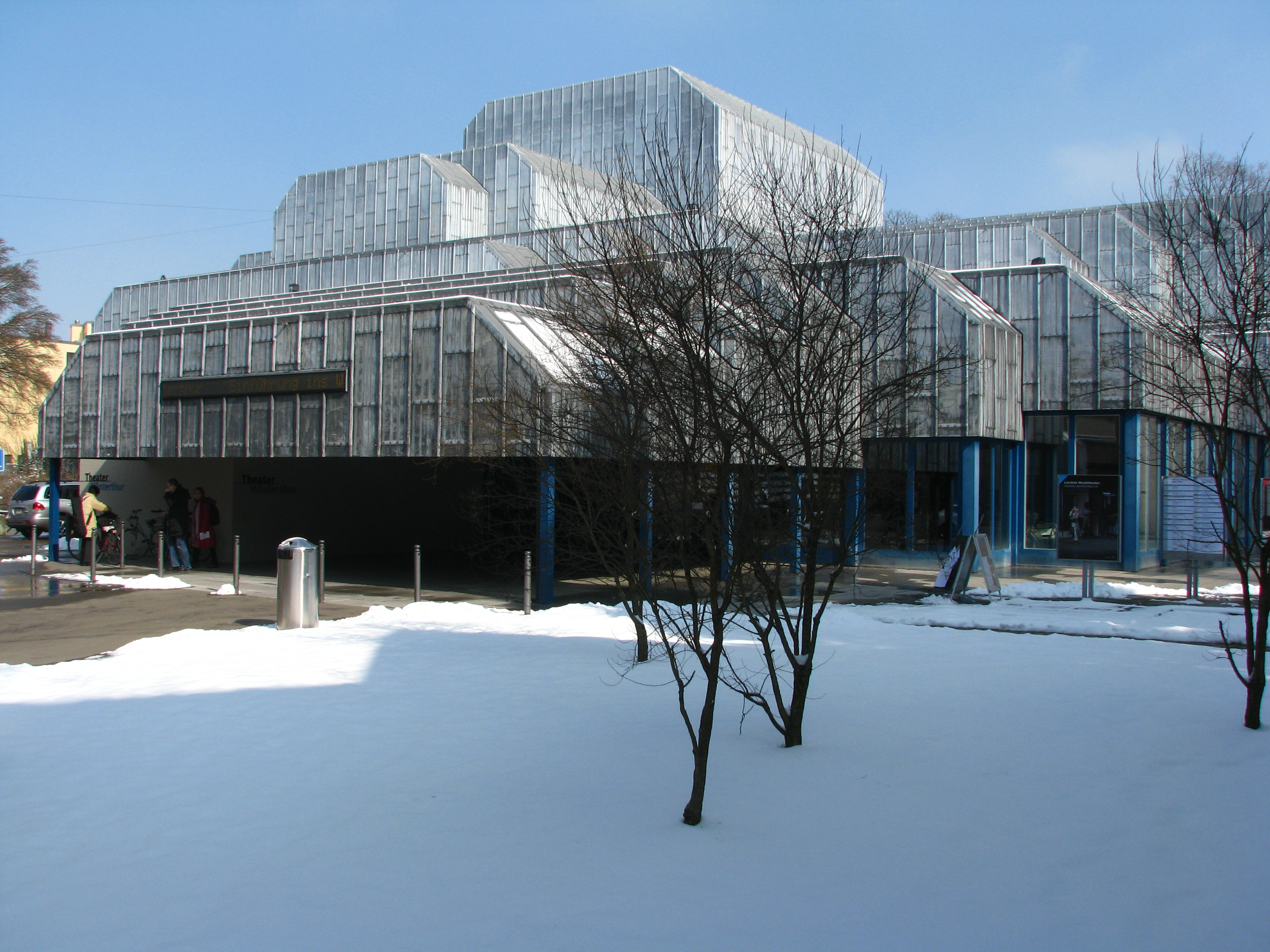 Theater in Winterthur (Switzerland)